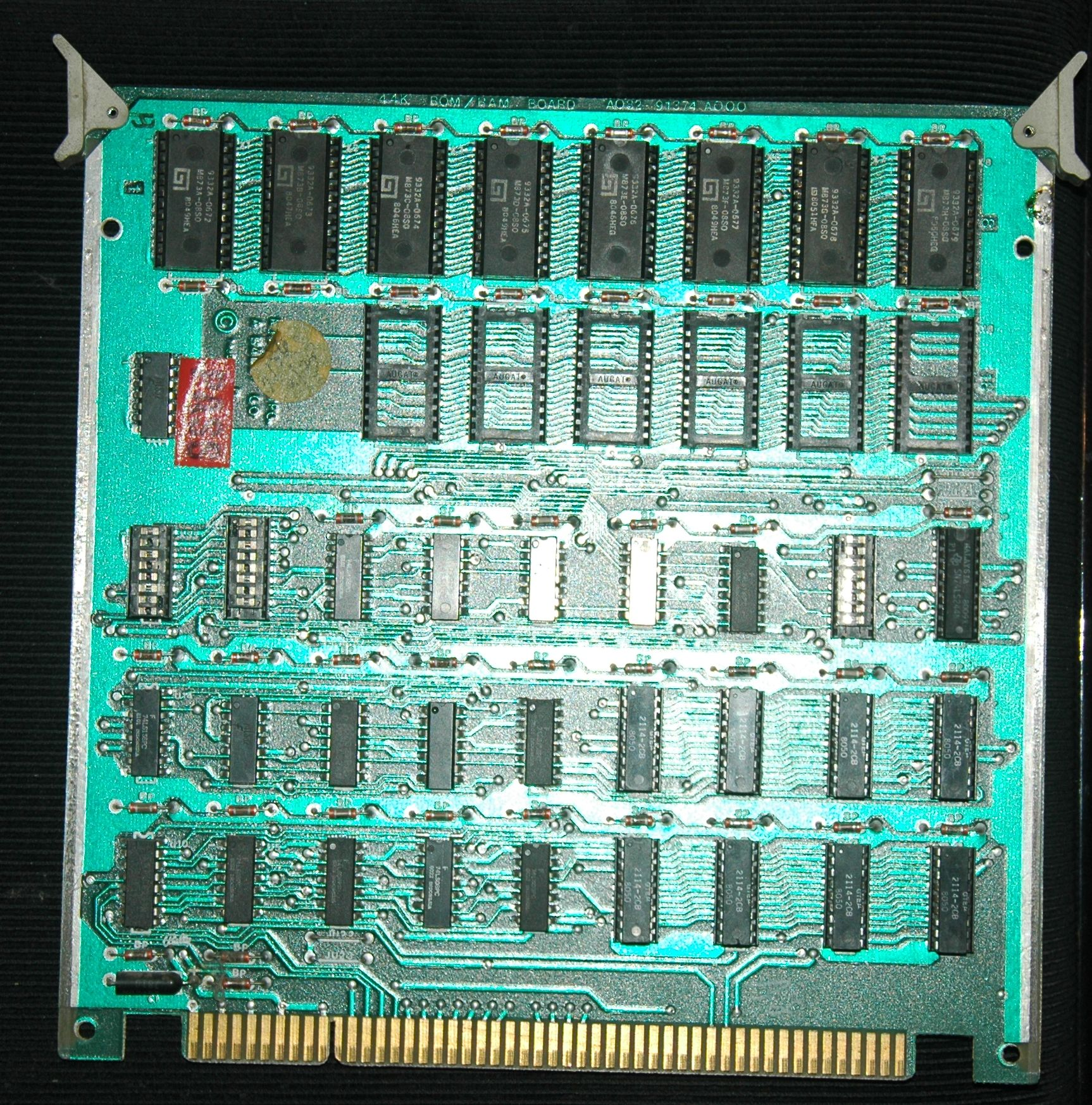 A Midway Gorf arcade game board set: the rom board